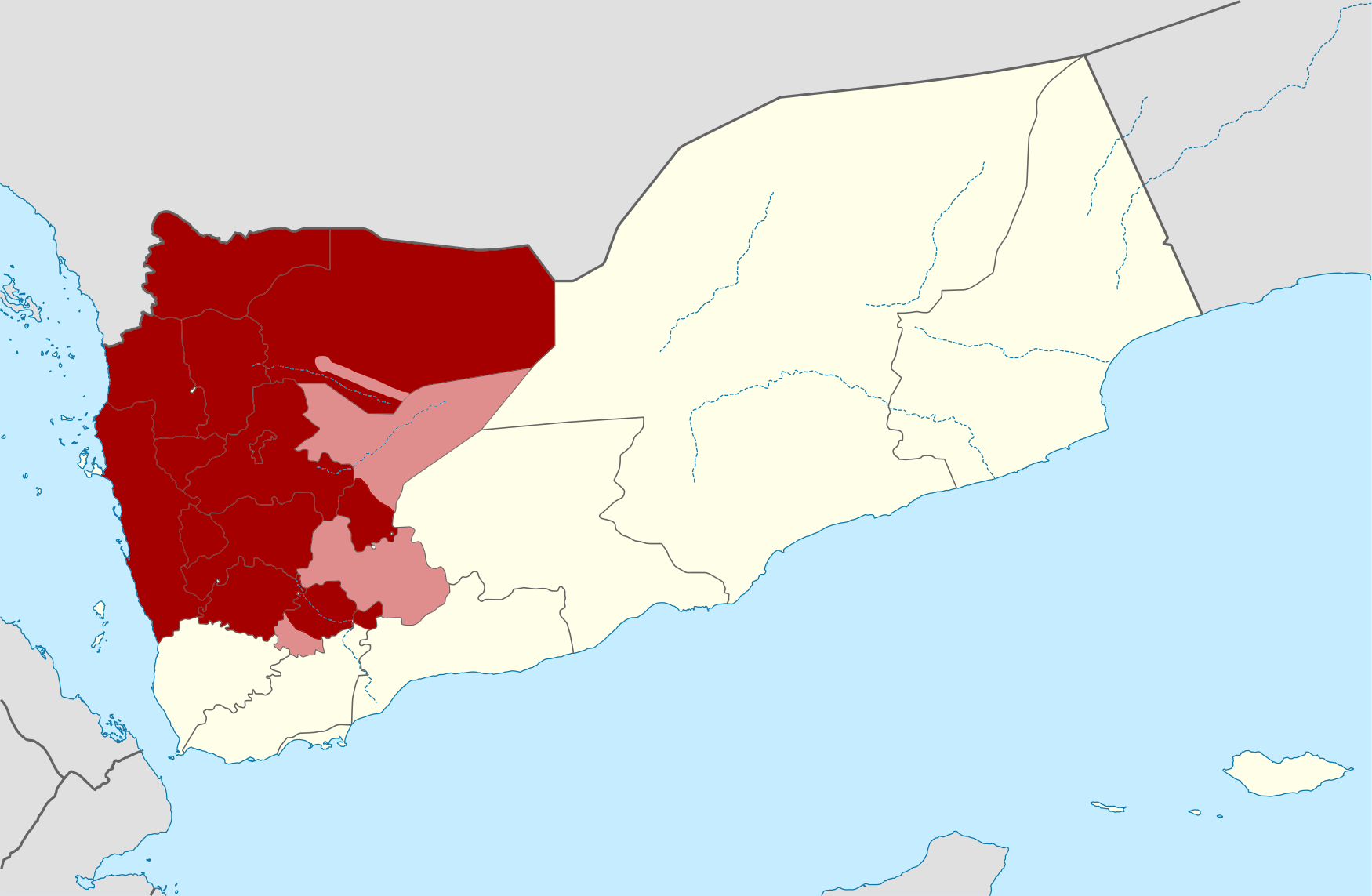 Houthi control Houthis presence